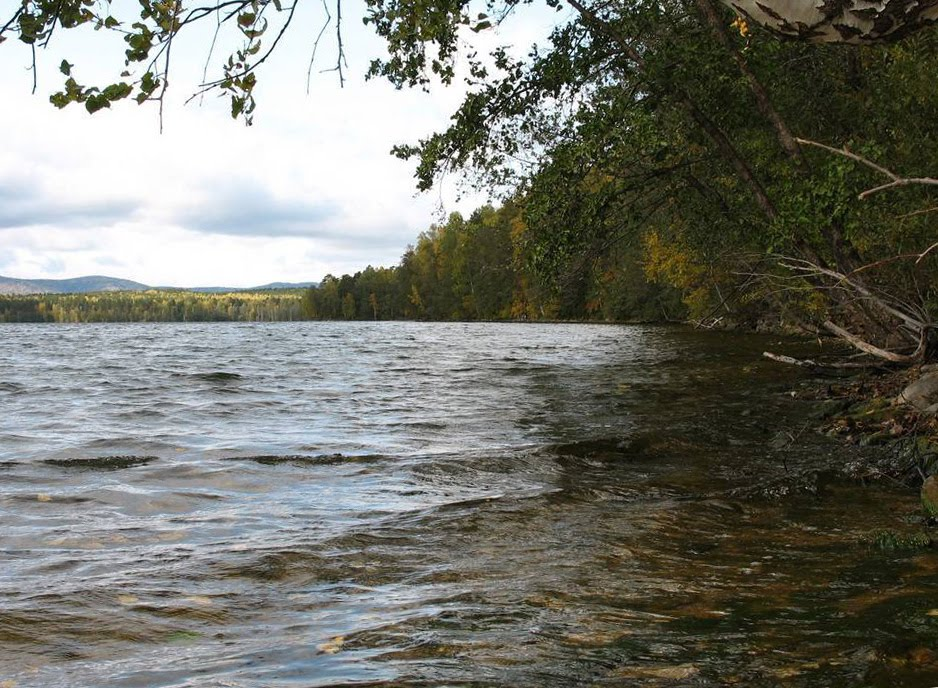 Озеро Большой Кисегач / Lake Bolshoy Kisegach